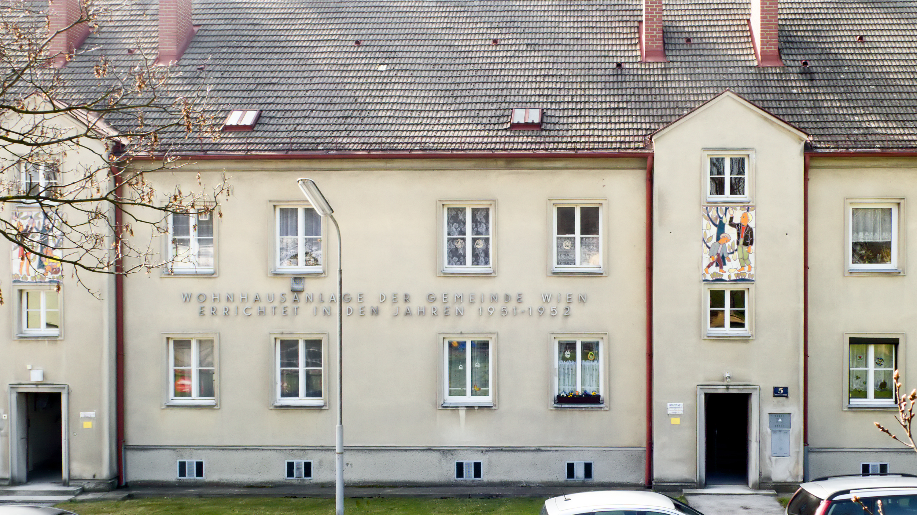 Kongresssiedlung in Vienna Hietzing